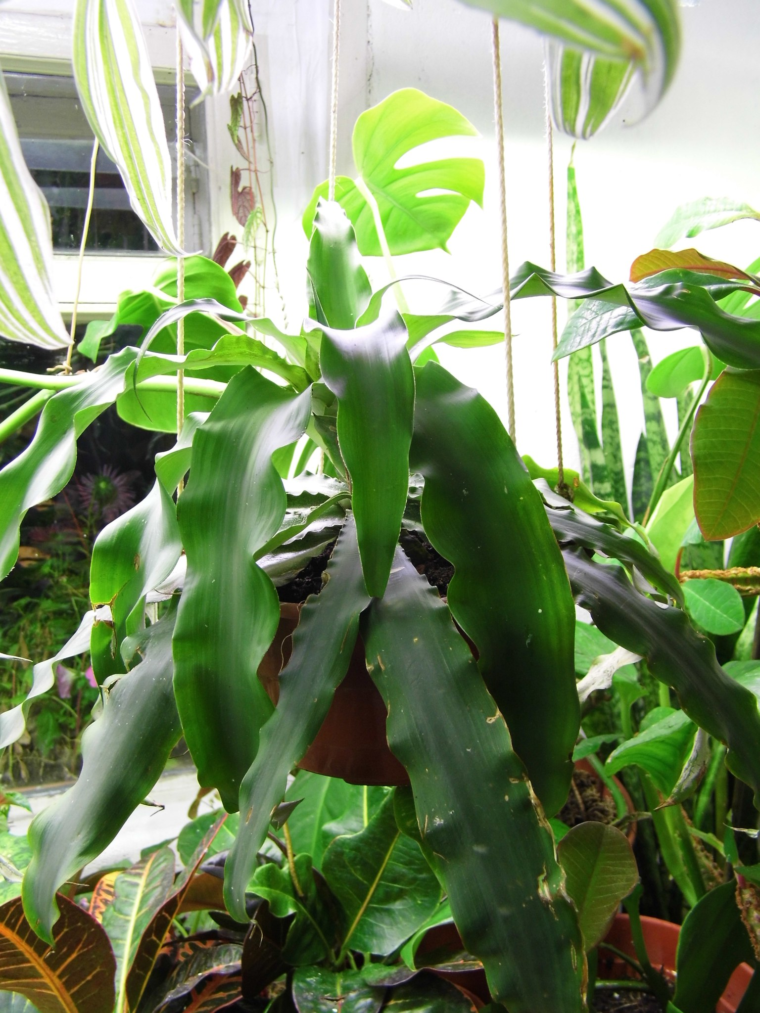 Fosterella vasquezii